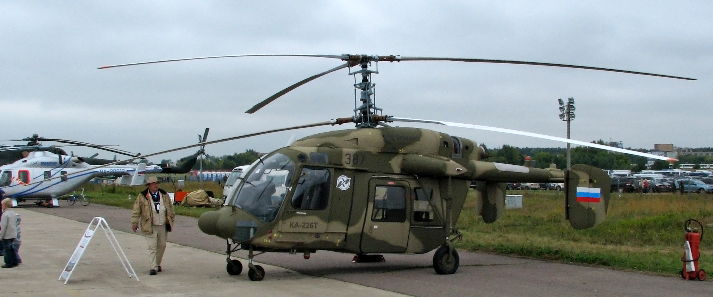 Kamov Ka-226T (The international aerospace salon MAKS-2009)